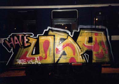 hate usa american Graffiti: Stockholm, Sweden. 1980s